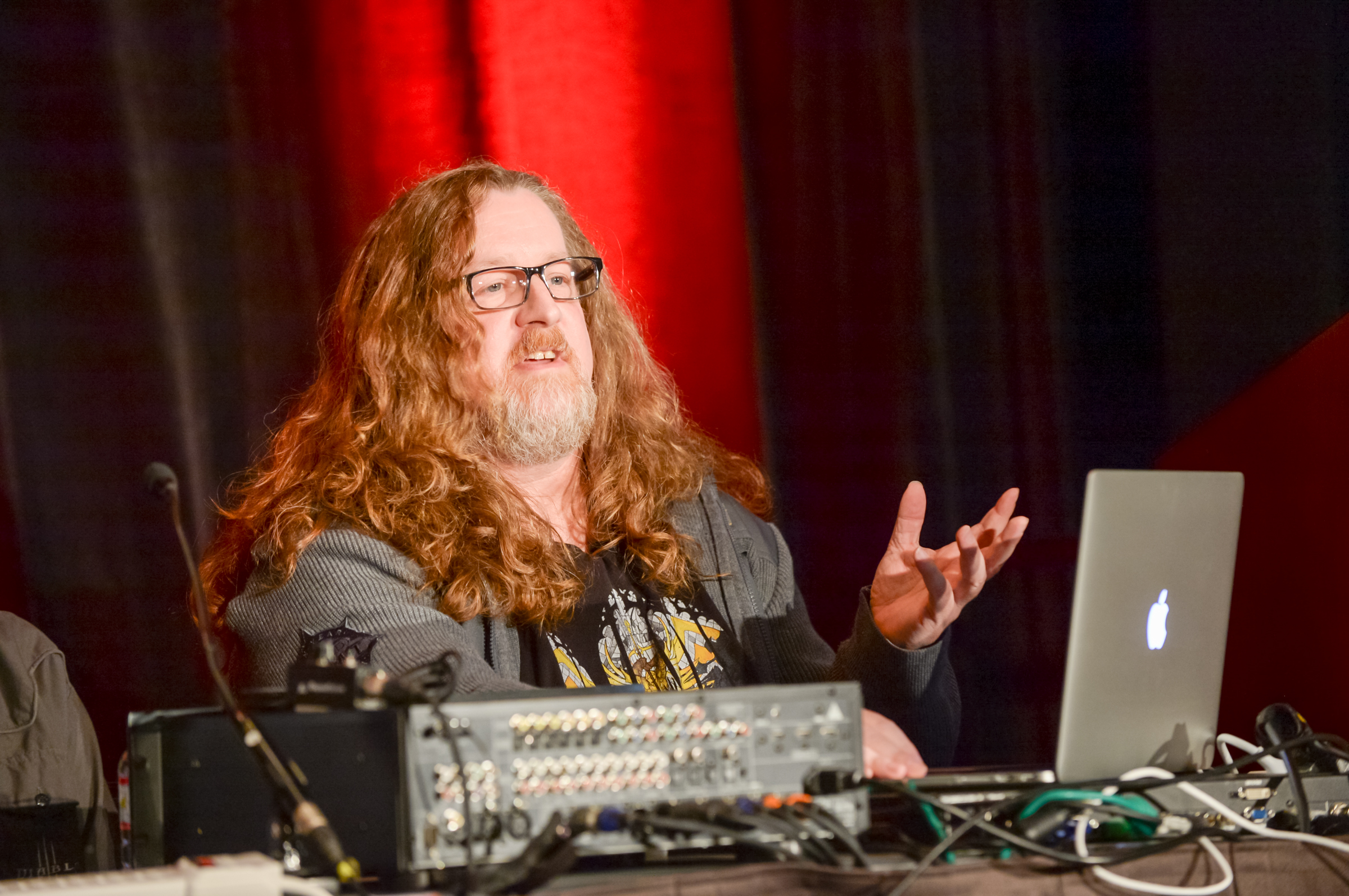 "Soundtracking Hell - The Music of Diablo III: Reaper of Souls Russell Brower | Senior Director of Audio/Composer, Blizzard Entertainment Derek Duke | Project Music Director & Composer, Blizzard Entertainment Neal Acree | Freelance Cinematic Composer, Neal Acree Music Joseph Lawrence | Supervising Sound Designer/Composer, Blizzard Entertainment Location: Room 3006, West Hall Date: Thursday, March 5 Time: 4:00pm - 5:00pm"